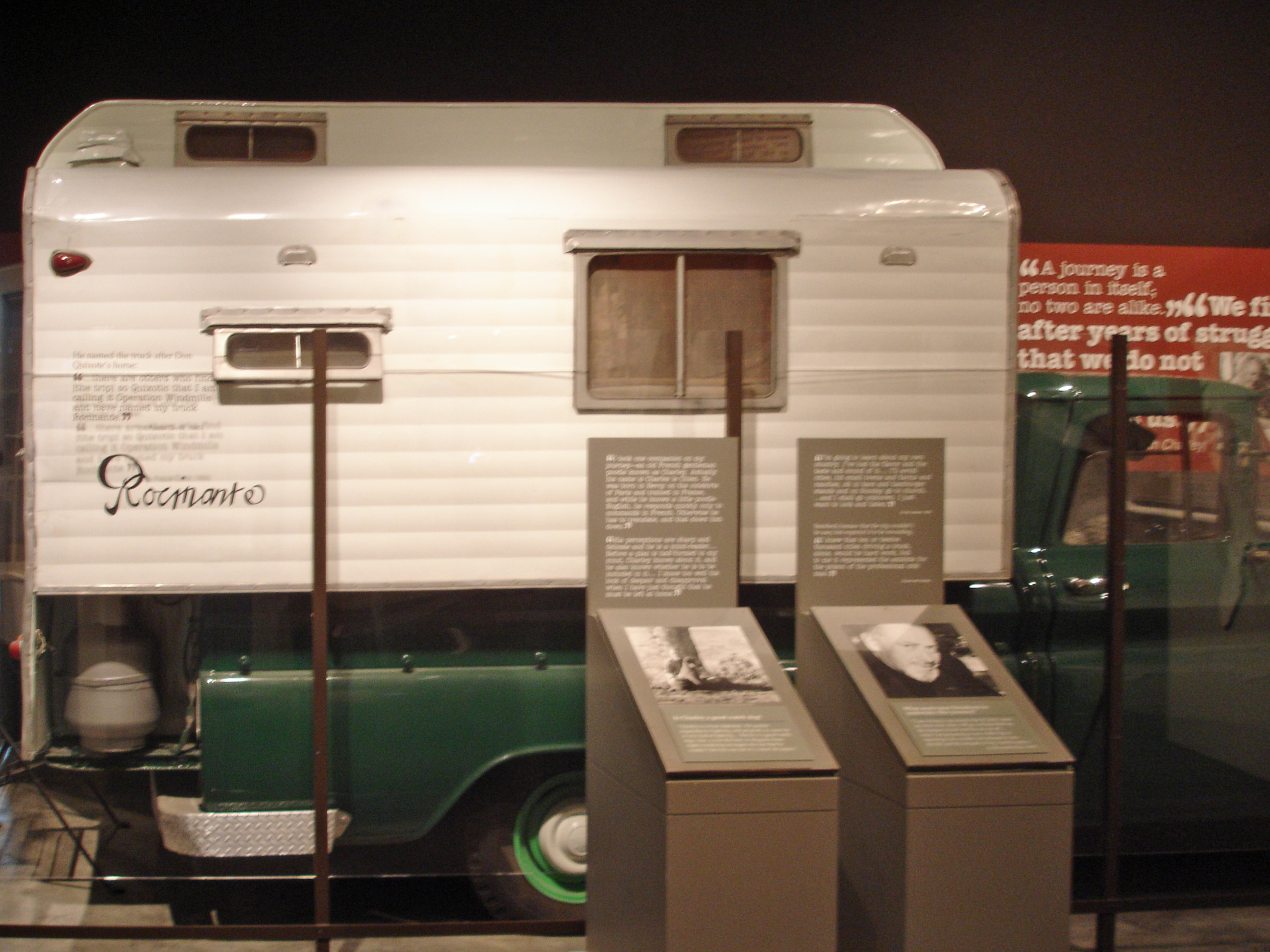 American author John Steinbeck's camper truck "Rocinante", which he took on a cross-country trip described in Travels with Charley. On display at the National Steinbeck Center in Salinas, California.